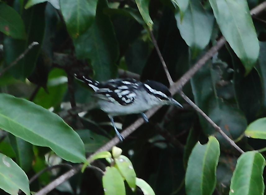 Spot-backed antwren (male) at Manaus - AM - Brazil